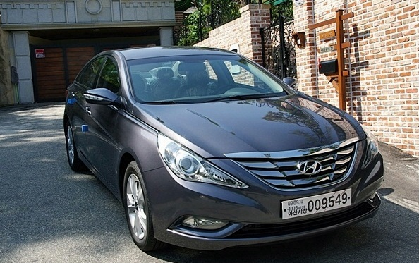 Hyundai YF Sonata (South Korea Version)